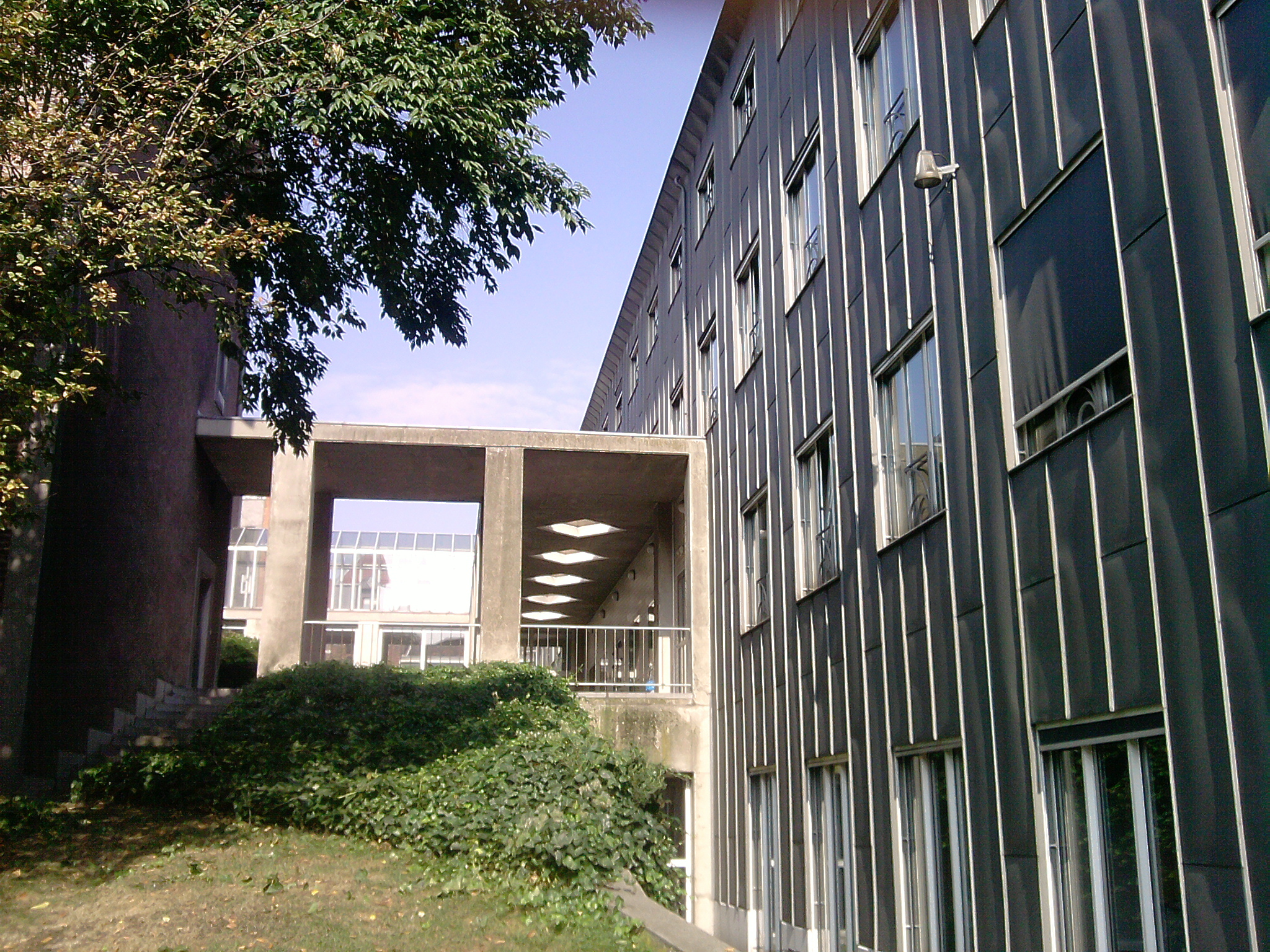 HEC Liege Belgium